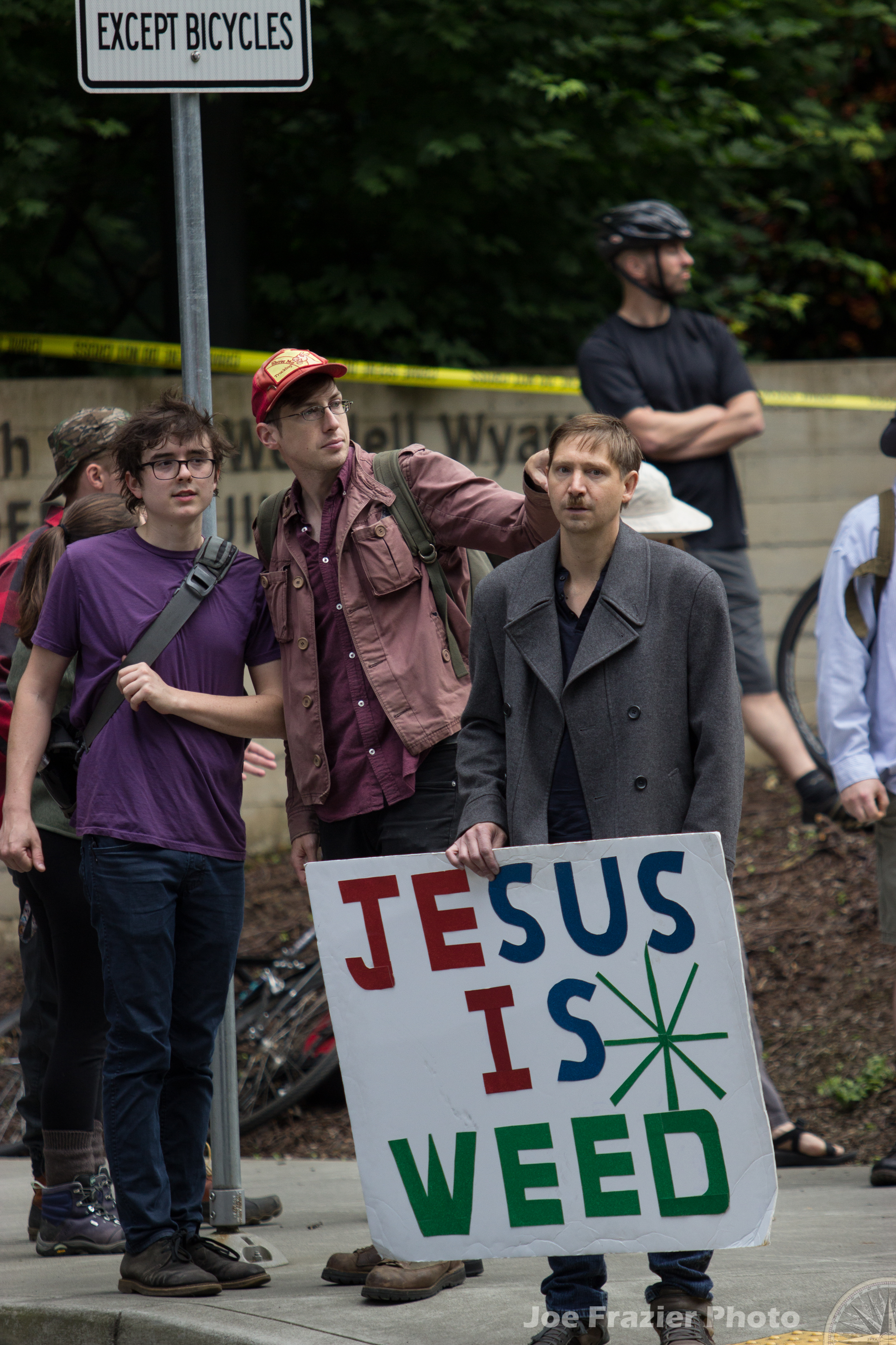 Hitler stash and weed jesus.